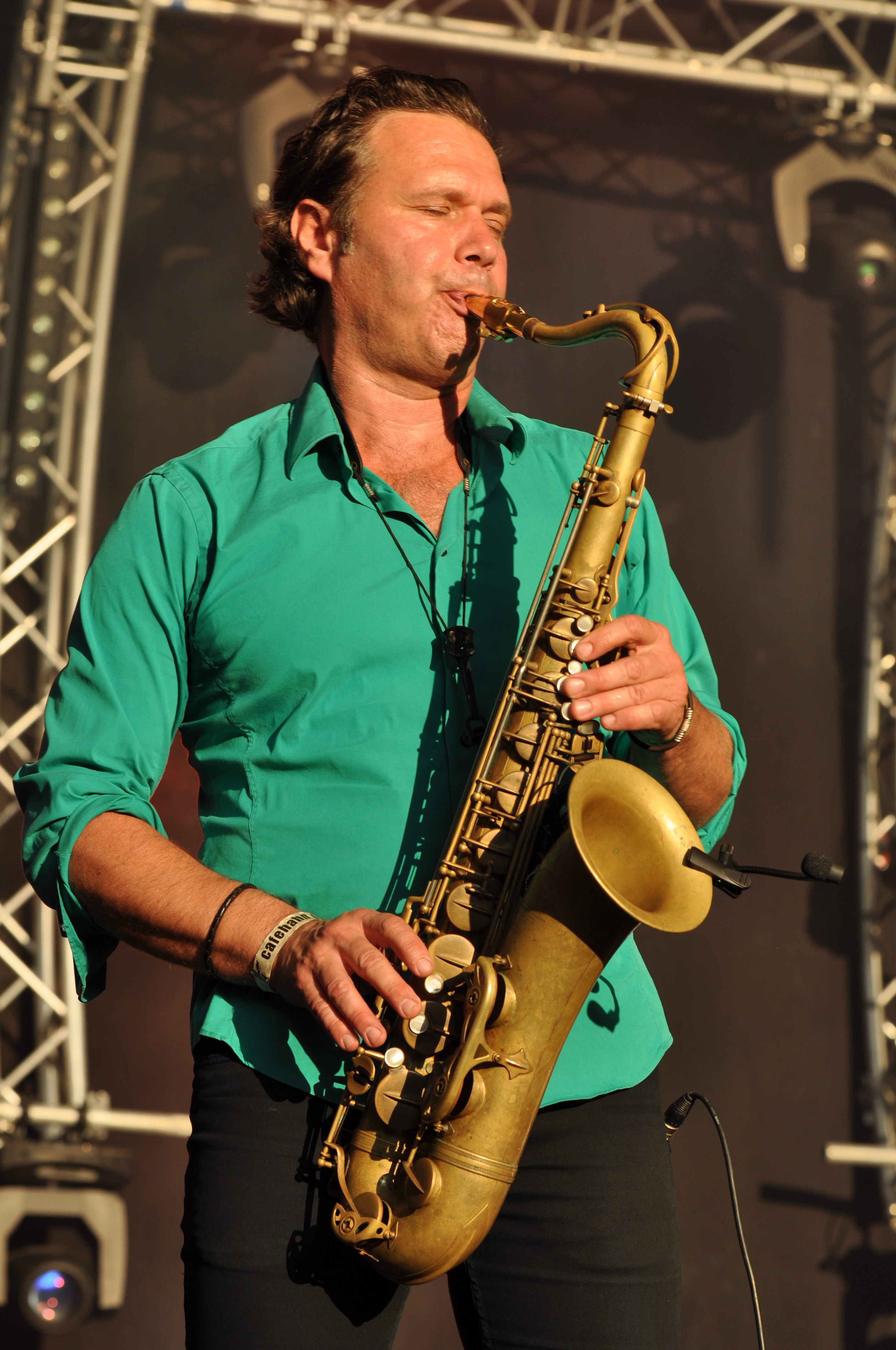 Quadro Nuevo (D), appearance at the 12th World Music Festival "Horizonte" 2014 at the fortress of Ehrenbreitstein, Koblenz (Germany)